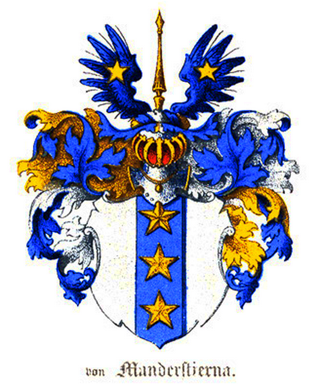 Coat of Arms of Manderstierna family